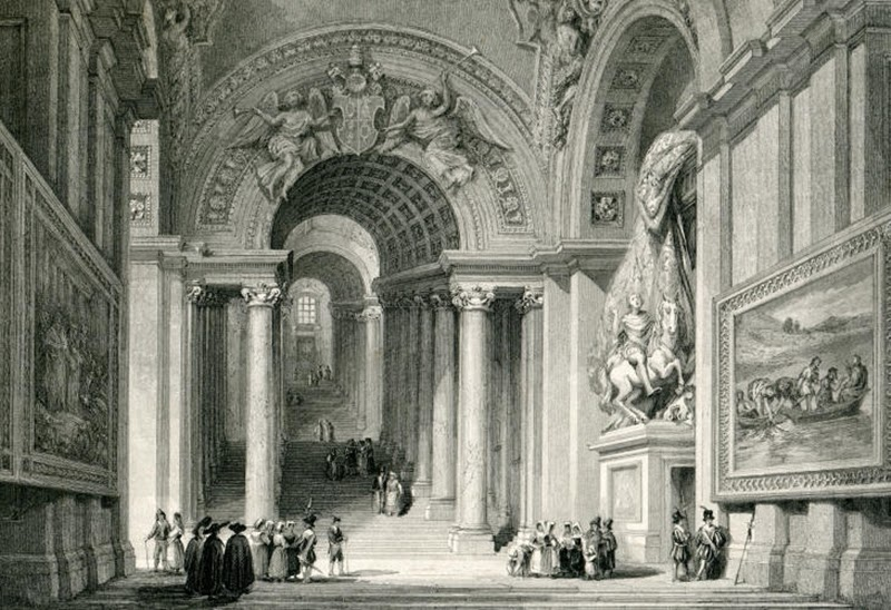 Giovanni Lorenzo Bernini's Scala Regia in the Apostolic Palace, Vatican, around 1835. Drawing by W.L. Leitch, engraving by E. Challis.